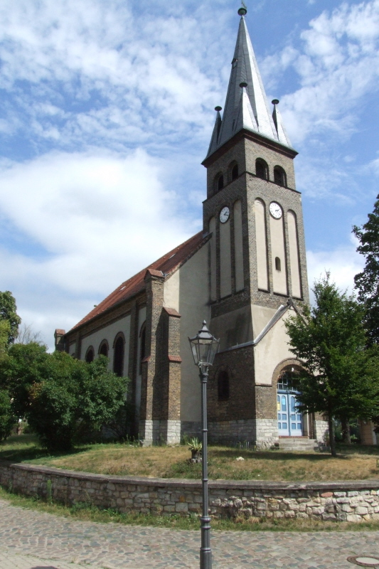 The village church of Rahnsdorf, Treptow-Köpenick, Berlin.